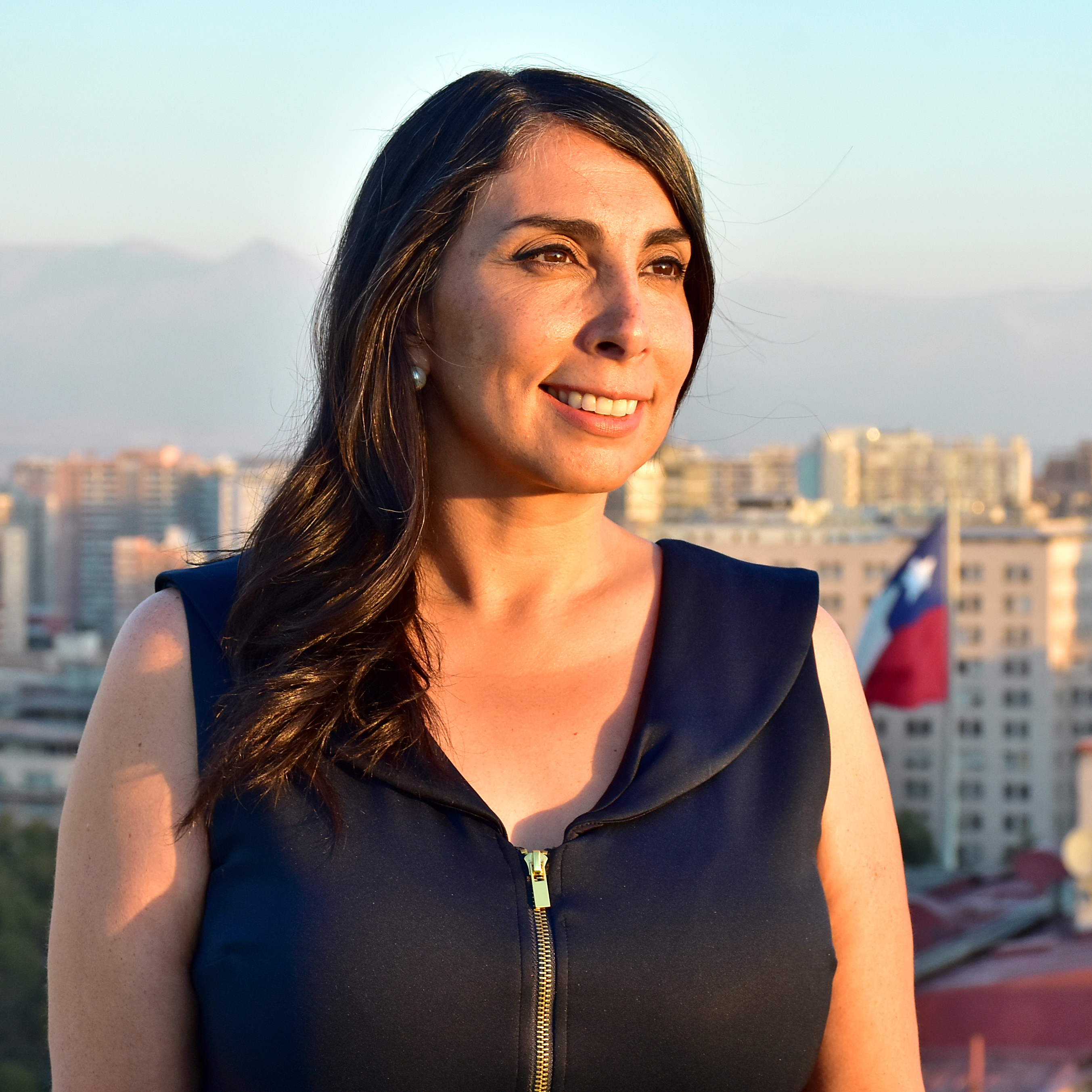 Karla Rubilar Barahona, Intendenta de Santiago